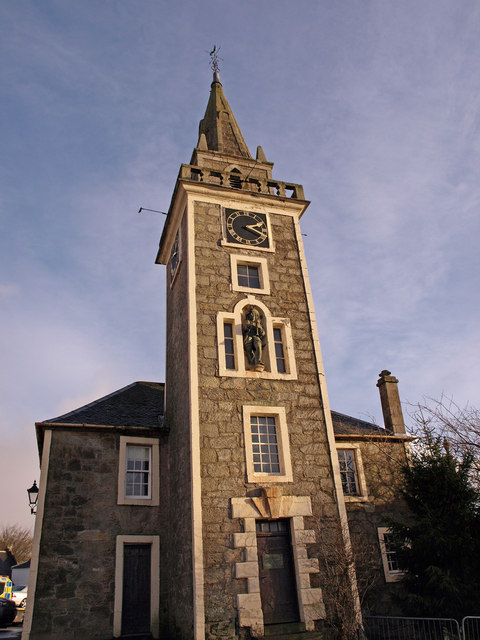 The Steeple, Kilbarchan. The Steeple was erected in 1755. The buildings attached to the Steeple were originally used as a school and meal market. A statue of Habbie Simpson, Kilbarchan’s famous left handed piper can be seen in a niche on the Steeple.